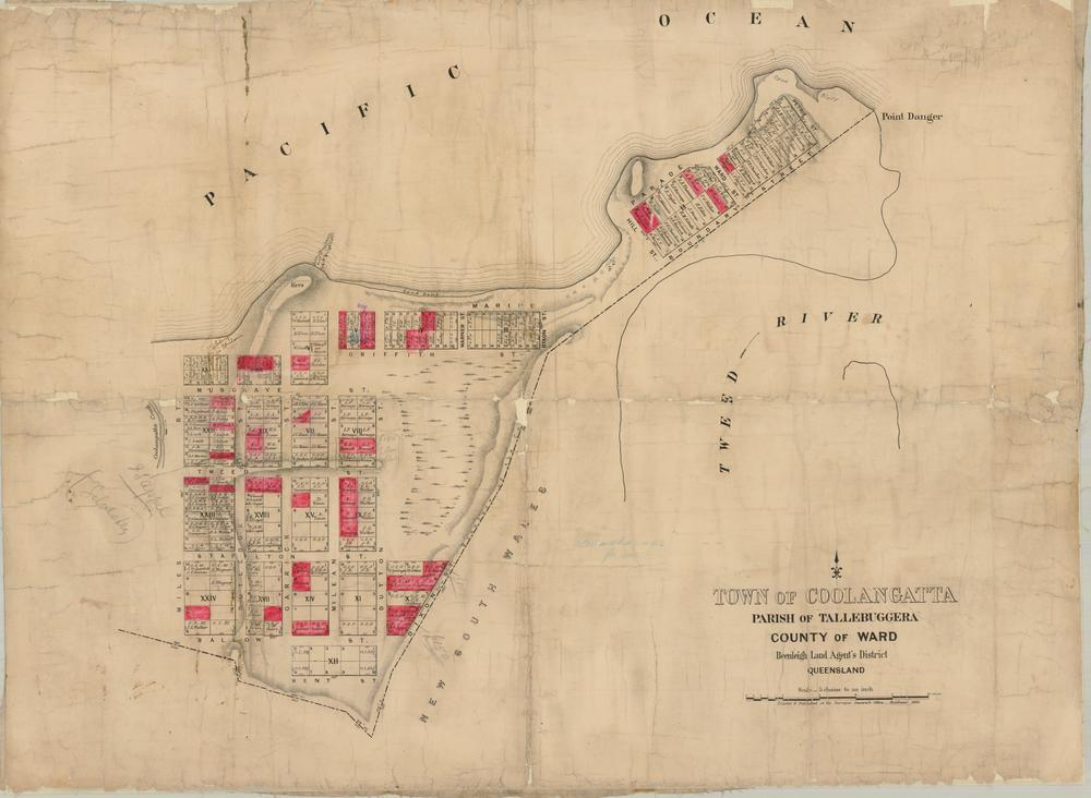 Estate map of the town of Coolangatta, Queensland, 1885 Estate map showing allotments to be sold between the Pacific Ocean and the New South Wales border.